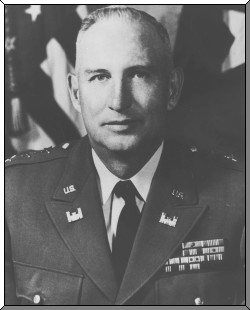 Lieutenant General Walter K. Wilson, Jr. from [1]